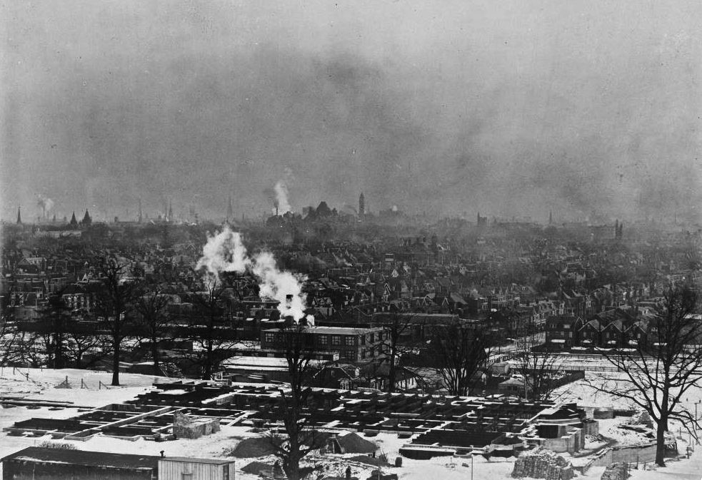 Photographs : Casa Loma foundations seen from tower of stables, Casa Loma, 1 Austin Terrace, Toronto, Ontario, Canada; circa 1908-1909; Fonds 1244, Item 4045.